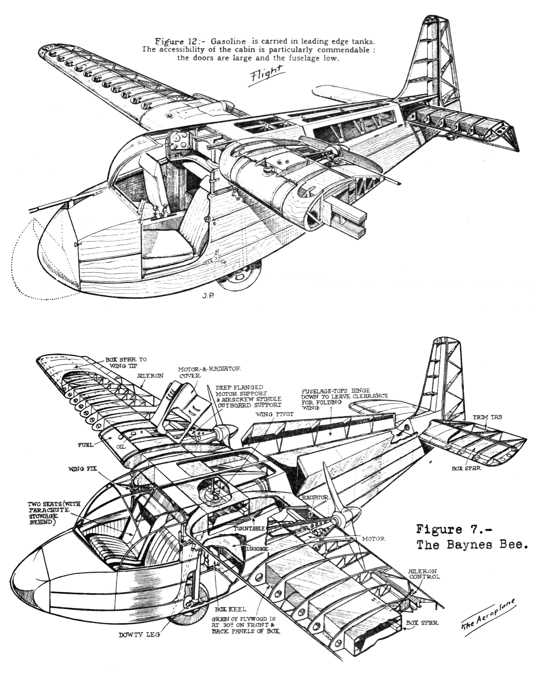 Carden-Baynes Bee detail drawing from NACA-AC-207